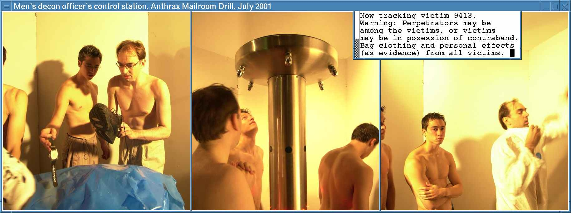 Dofficer control console in men's side of decon facility This is a screen grab of our control console for the dofficers (decon officers) on the men's side of the decon facility at 80 Spadina Ave (Anthrax-ready mailroom), July 2001. All computer programs in the 80 Spadina Ave mailroom exhibit and drill were running GNU Linux, and no proprietary operating systems or programs were used in the exhibit or drill. I license this material for use in Wikipedia. This picture is released under the Shared Experience License, Copyright (c) 2004, Steve Mann. Permission is granted to copy, distribute and/or modify this experience under the terms of the ePi Lab Shared Experience License, Version 1.0 or any later version published by the EyeTap Personal Imaging Laboratory. Full resolution version can be found in This image has also been published in the peer reviewed journal, Leonardo, considered by many to be the leading peer reviewed journal on art, science, and technology. The article containing this image is among the articles cached in